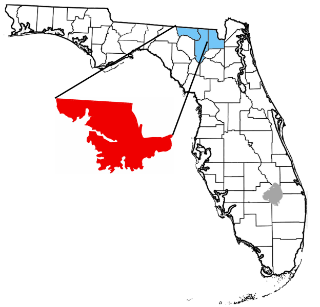 Location of the geologic Statenville Formation in Florida.